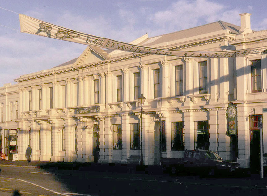 Star and Garter Hotel building, Oamaru, New Zealand (photograph by James Dignan, July 2005. New Zealand Historic Places Trust Register number: 3219.)